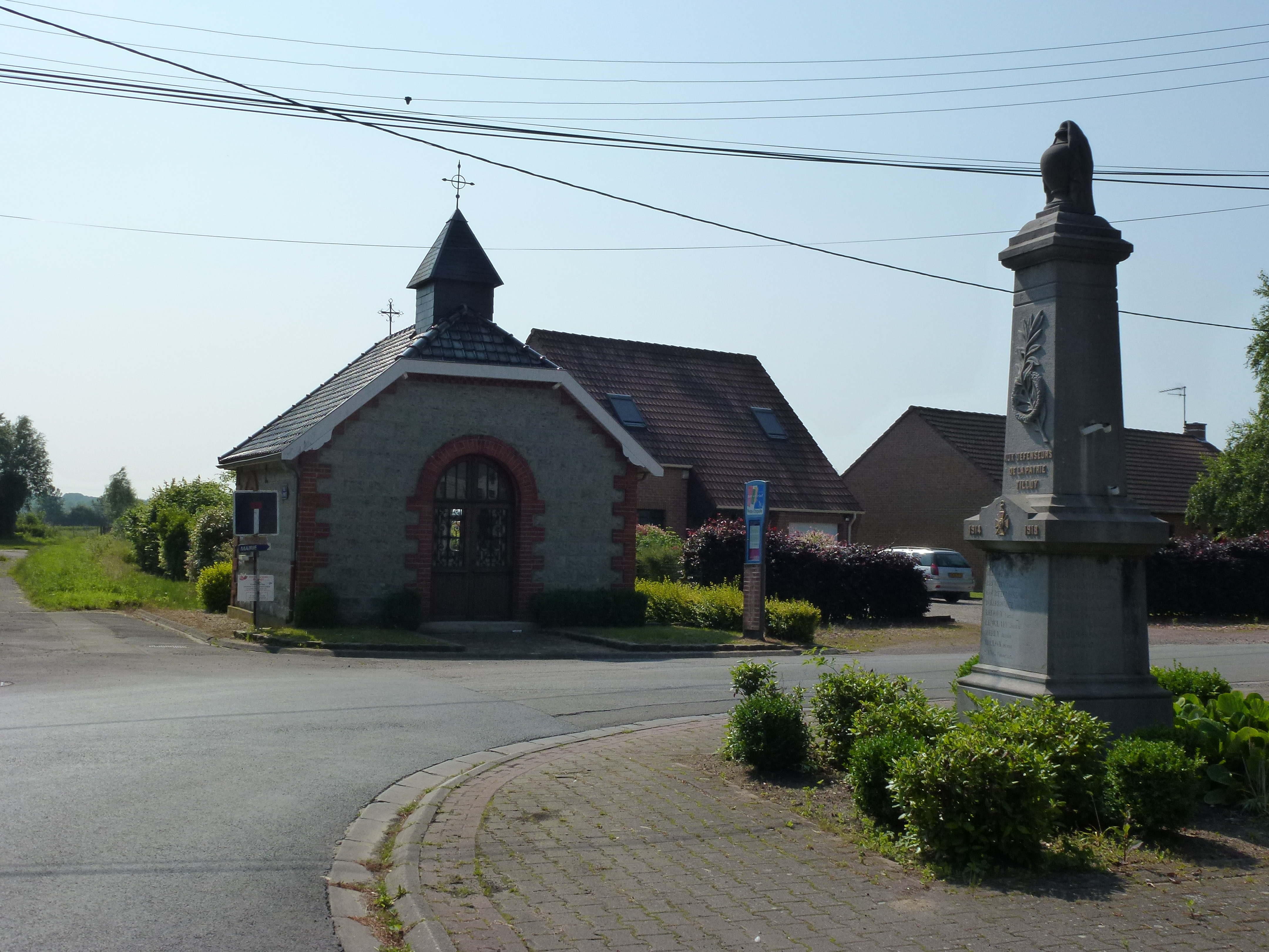 Tilloy-lez-Marchiennes (Nord, Fr) chapelle du village avec monument aux morts